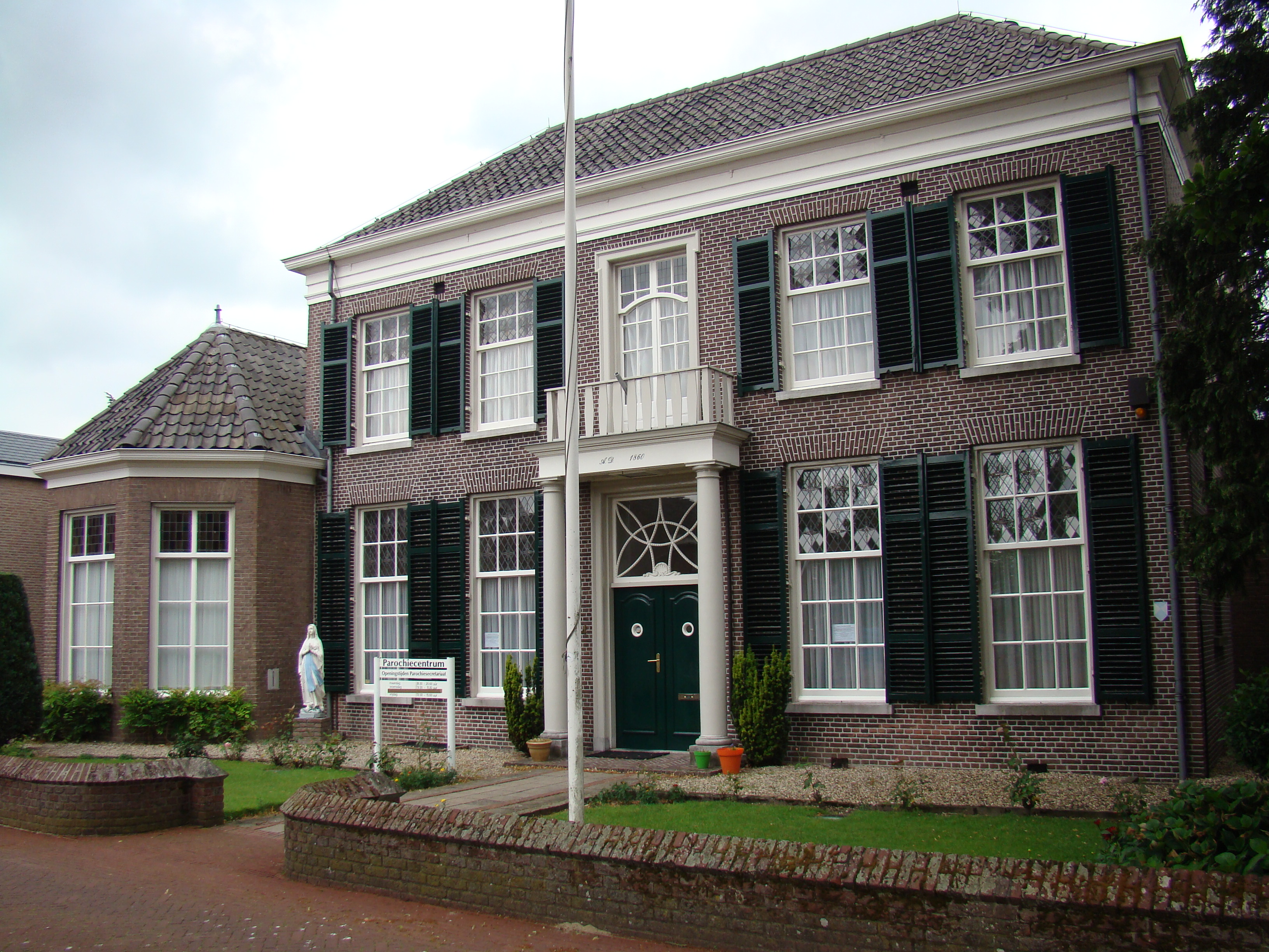 Impressions of Wehl Netherlands